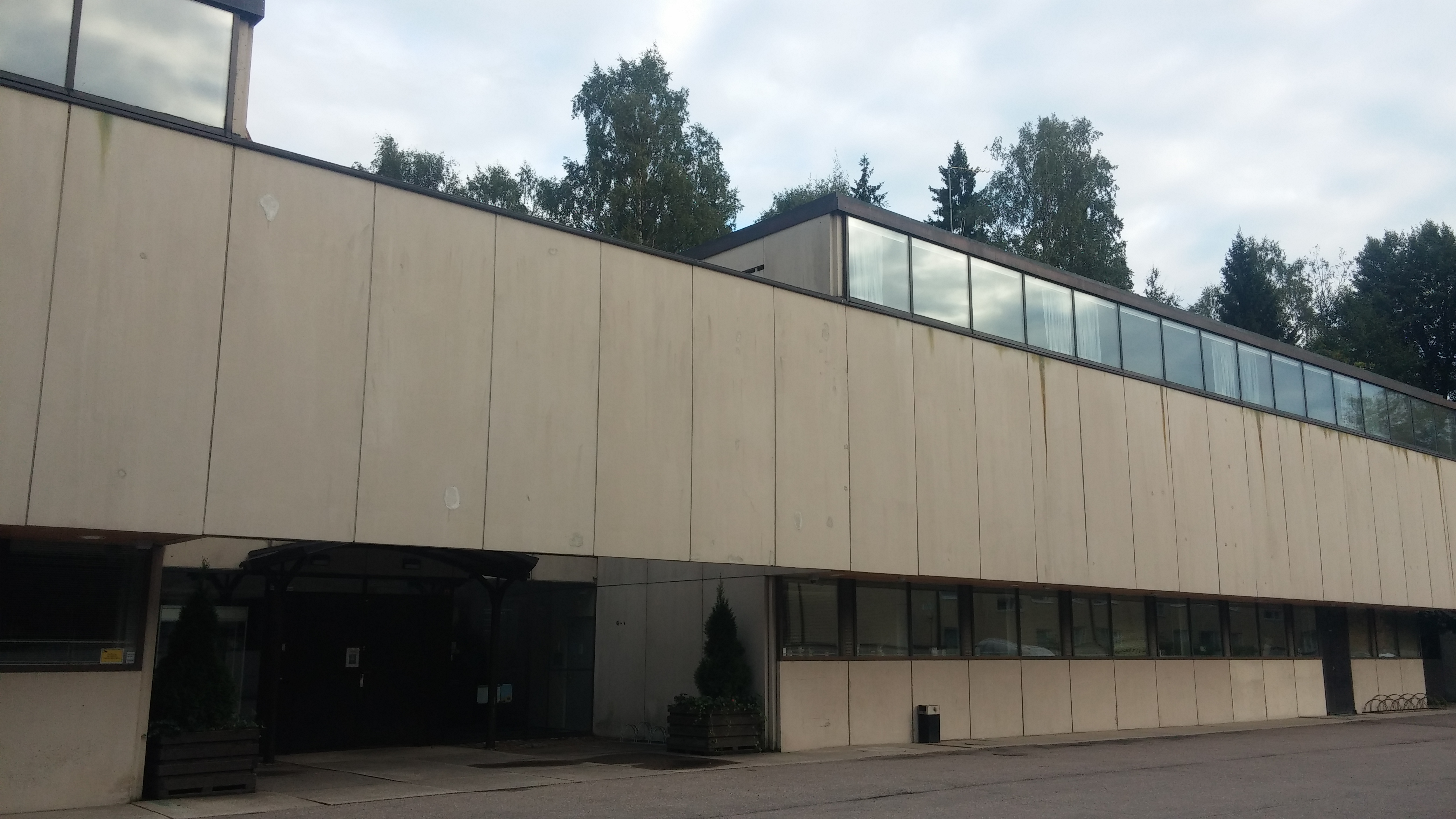 Kannelmäen seurakuntakeskus